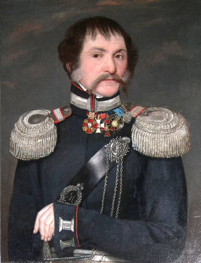 Vasily Stepanovich Zolotarev